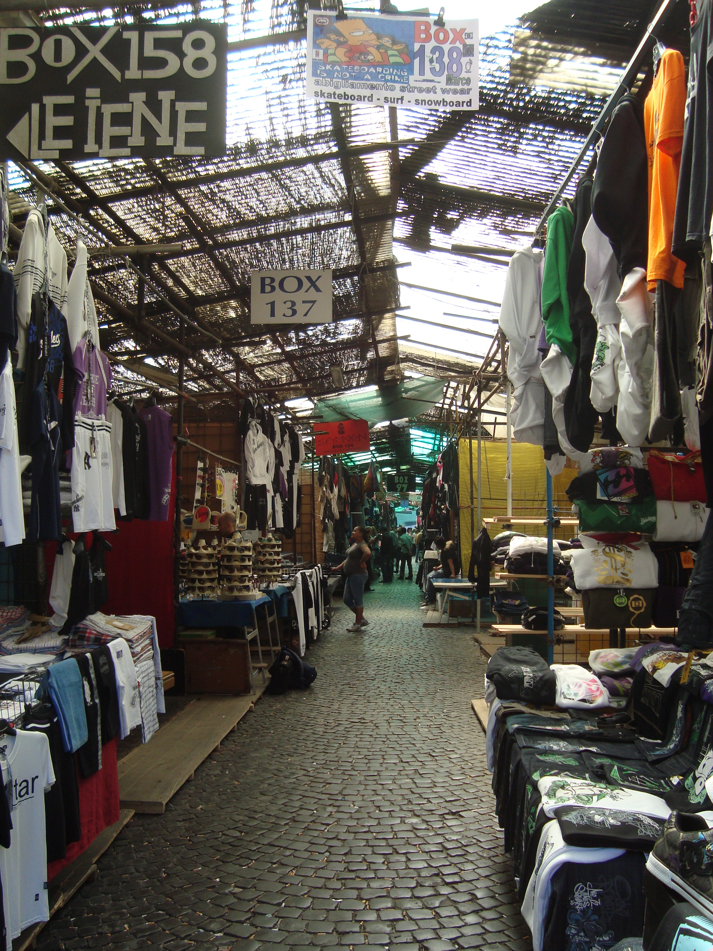 The open-air market in via Sannio, Rome